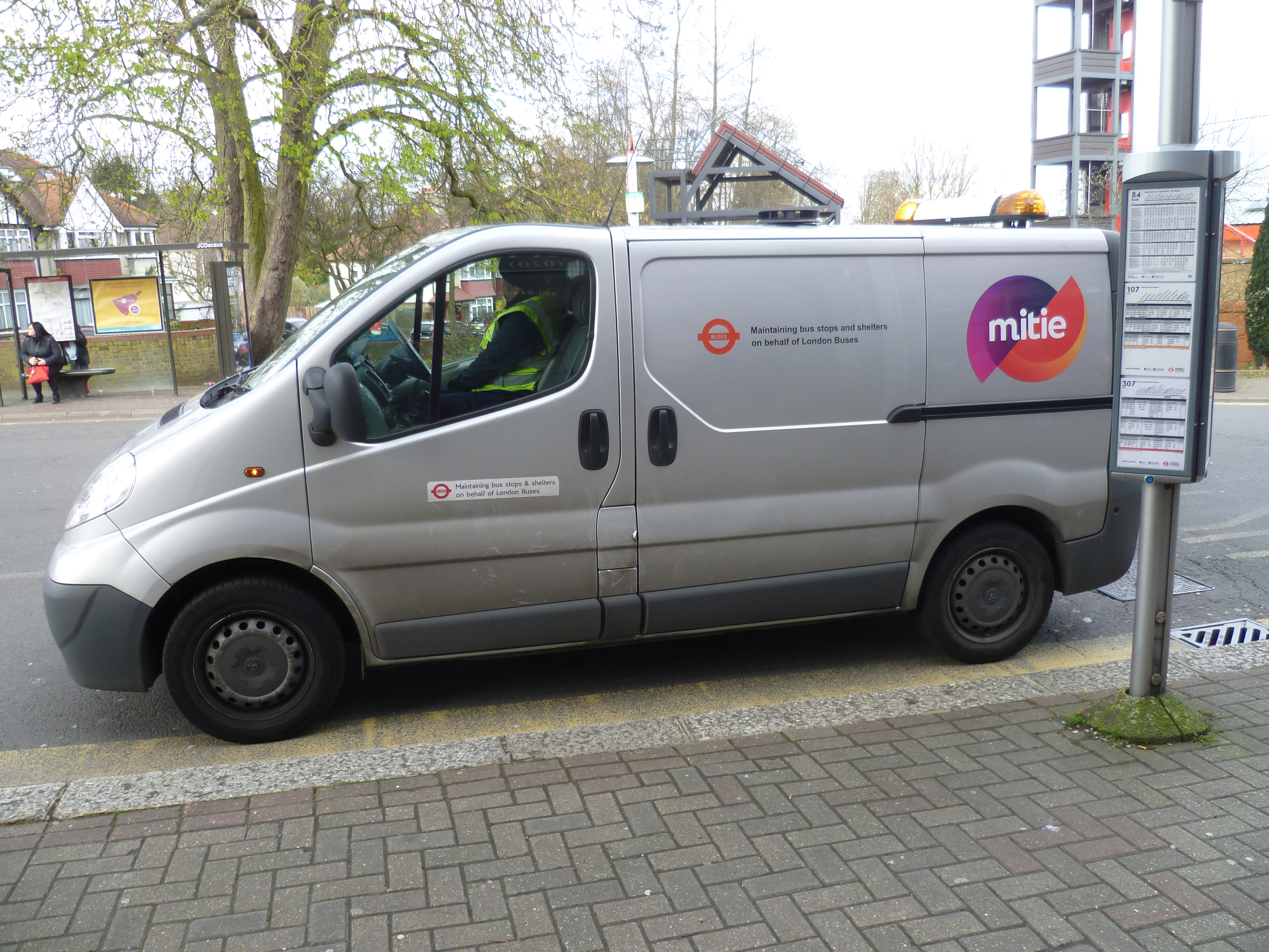 London